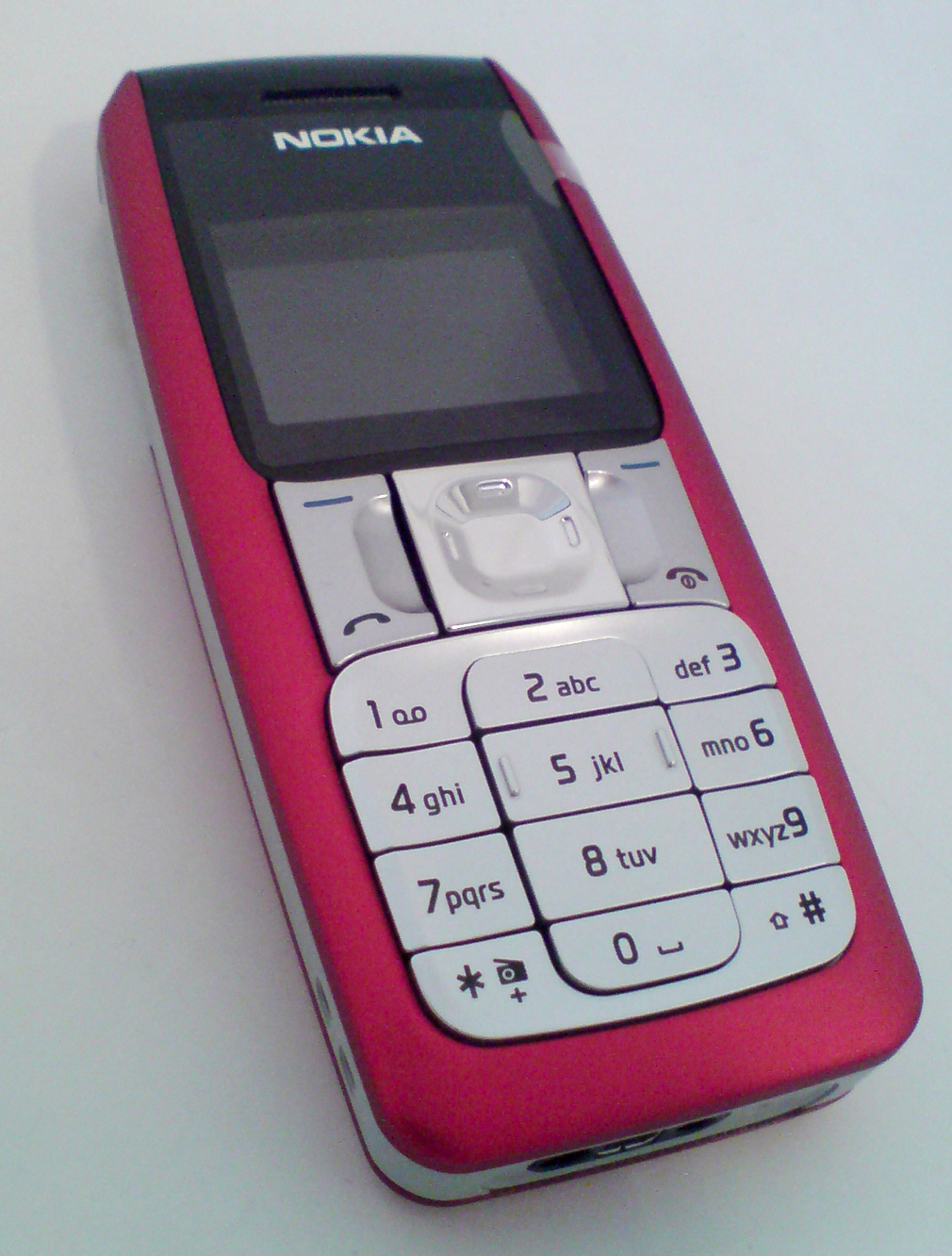 Colour photo showing Nokia 2310 mobile phone front